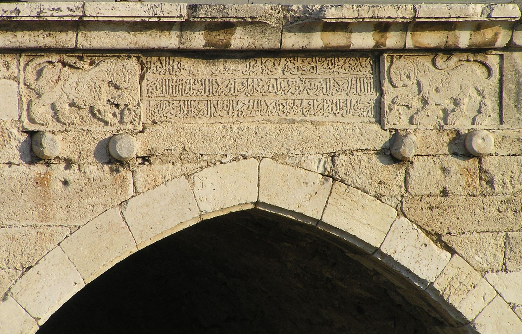 Baibars Bridge, near Lod, Israel. Inscription on the western side